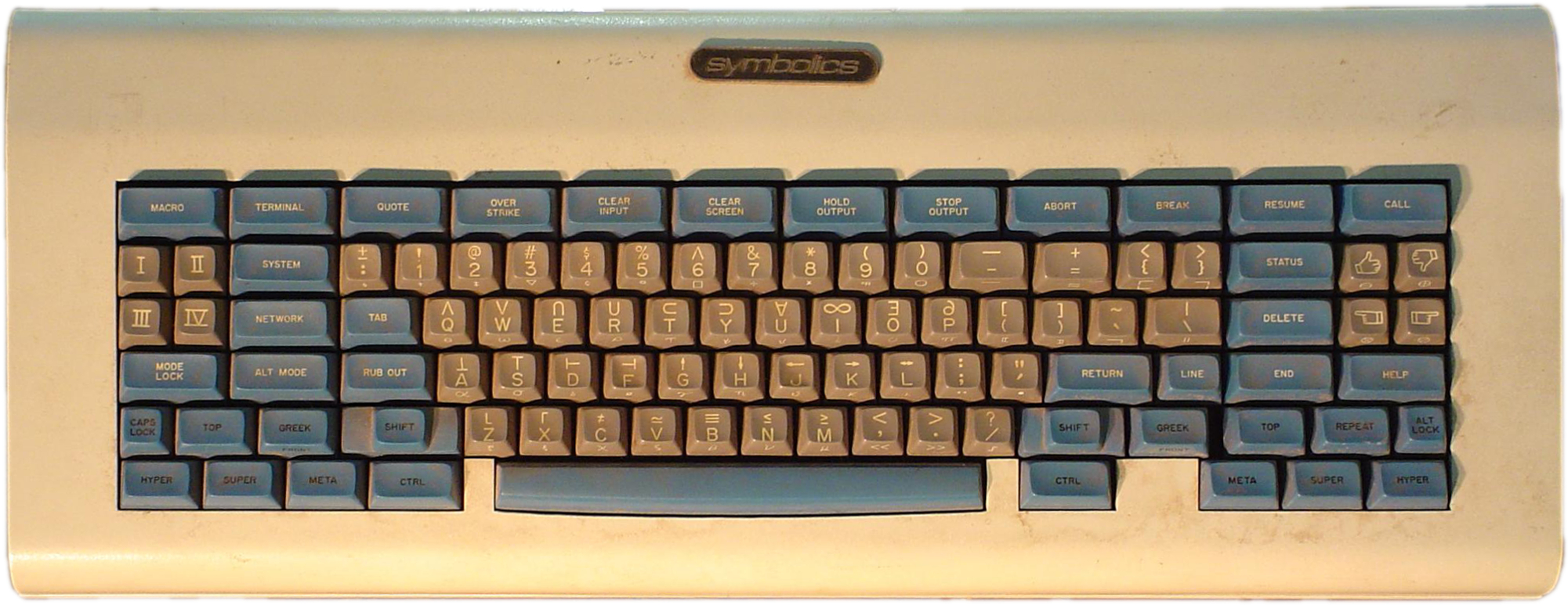 Symbolics LM-2 Lisp machine space-cadet keyboard